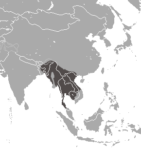 Distribution map of the Bengal Slow Loris (Nycticebus bengalensis) range — in South and Southeast Asia.